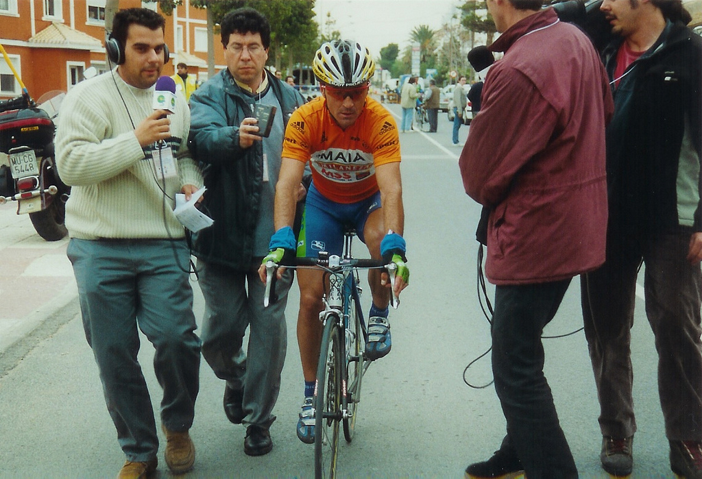 Vuelta Ciclista a Murcia 2002, winner first stage Murcia - Fortuna, 6 March 2002